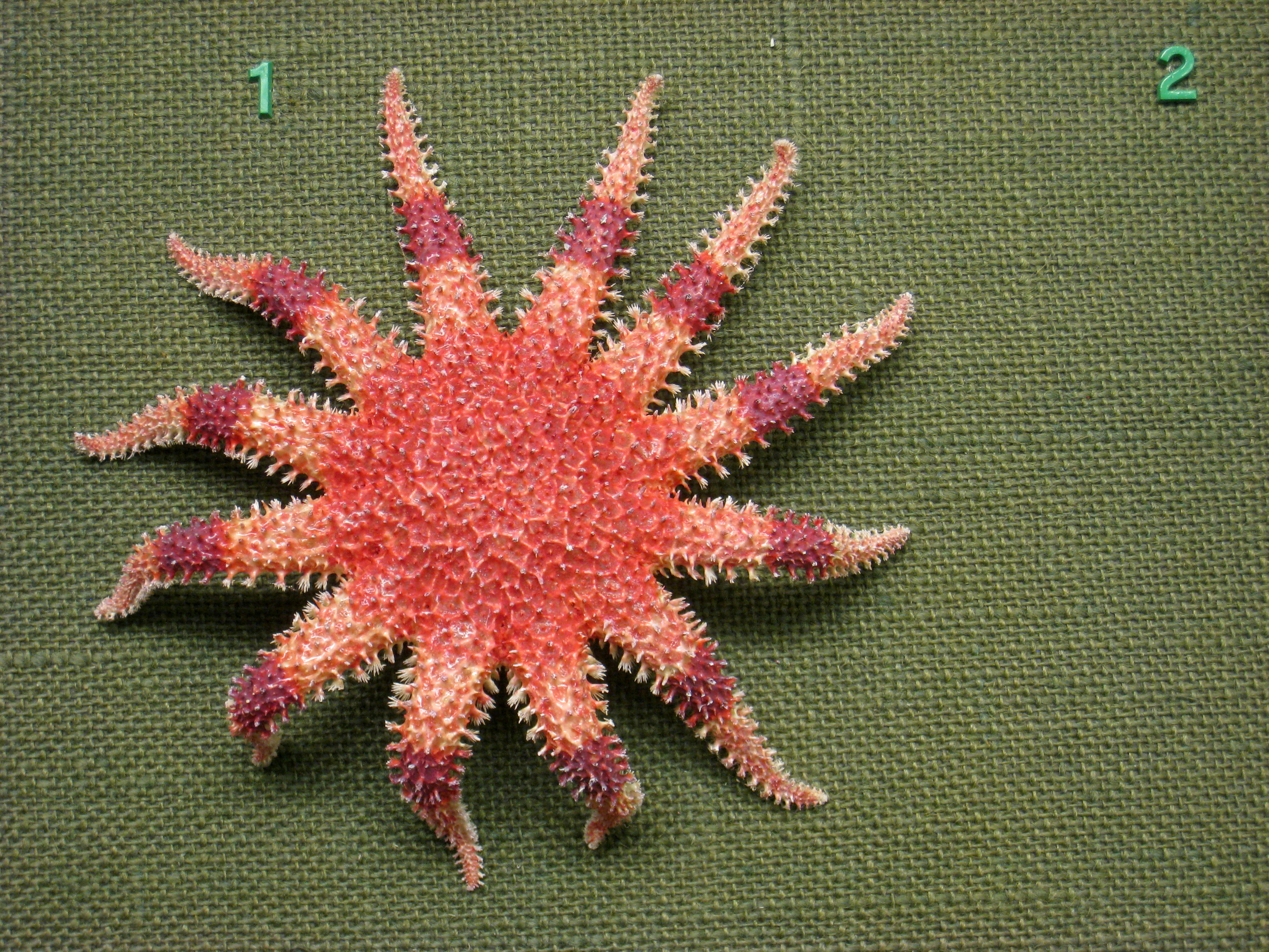 Crossaster papposus in the Oslo Zoological Museum (Naturhistorisk Museum), Oslo, Norway.